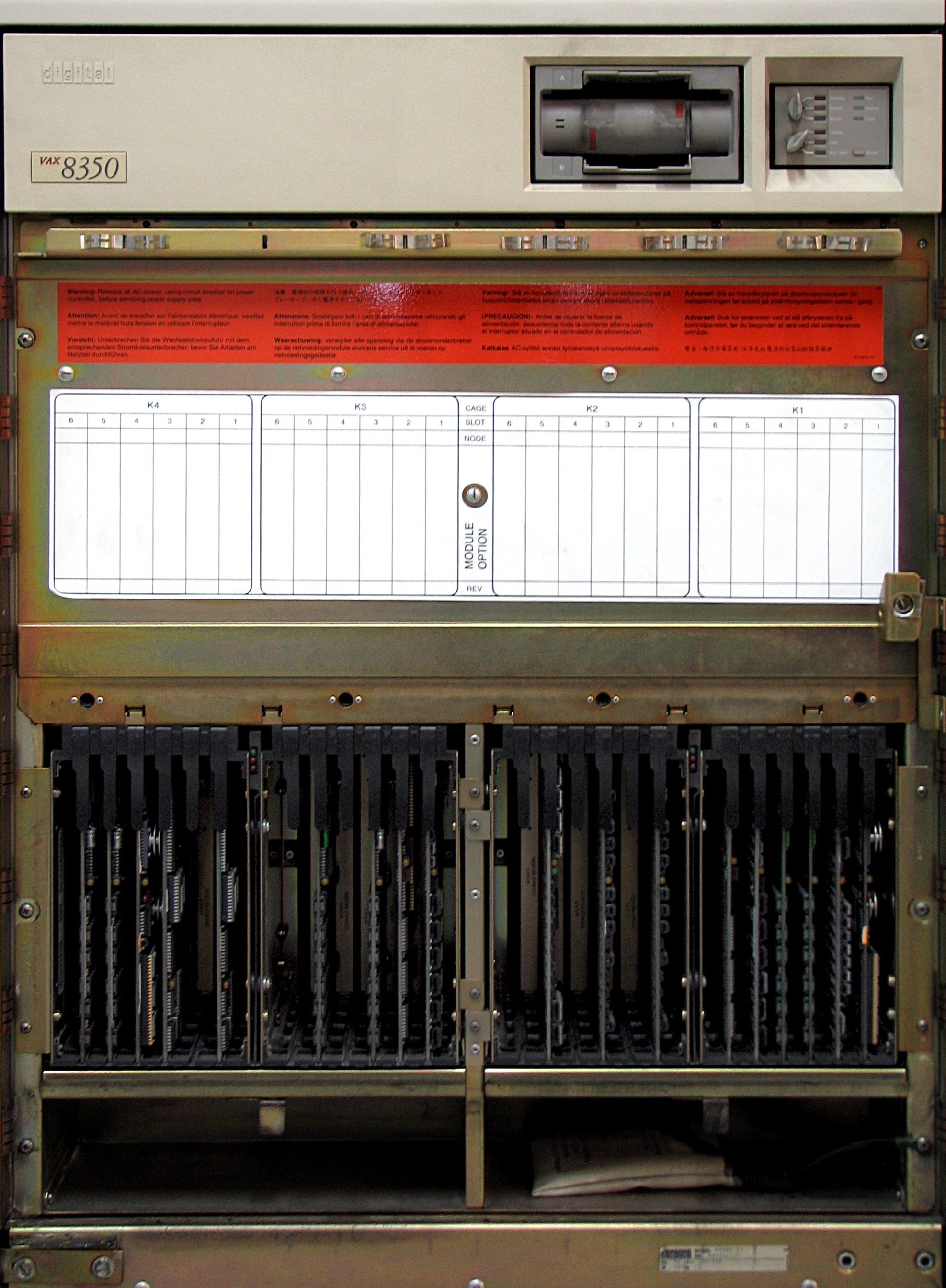 DEC (Digital Equipment Corporation) VAX 8350 front view with cover removed.